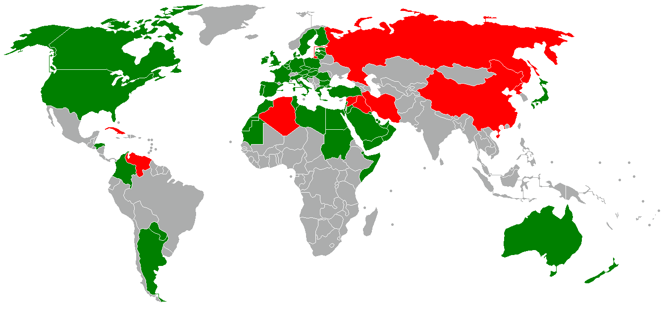 Countries in green declares Hezbollah as a terrorist organization and the countries in red doesn't recognize it as a terrorist organization, but a political organization. Some countries in the middle of a civil war, such as Venezuela and Syria, has a official government and an democratic rebel government, and Venezuelan Guaido's government and Syrian opposition declare Hezbollah a terrorist organization, while Algeria's government support Hezbollah despite the Arab League's opposition of the group.